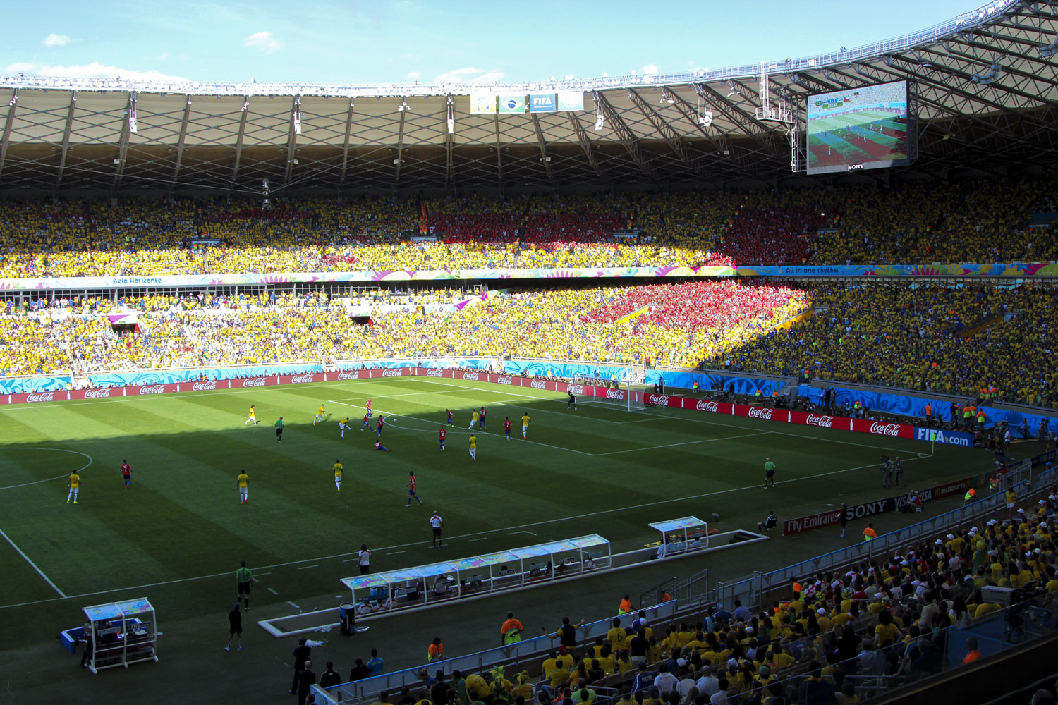 Brazil vs. Chile in Mineirão